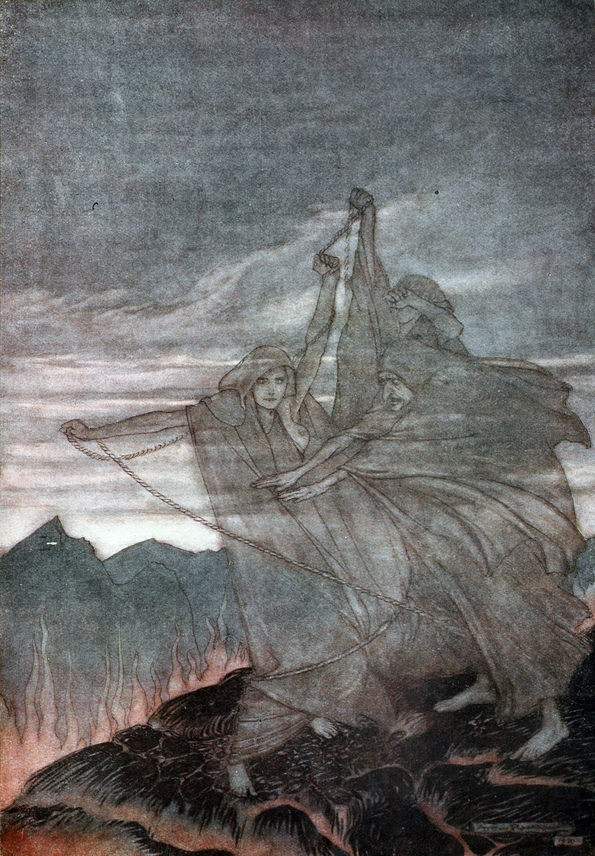 The Norns vanish